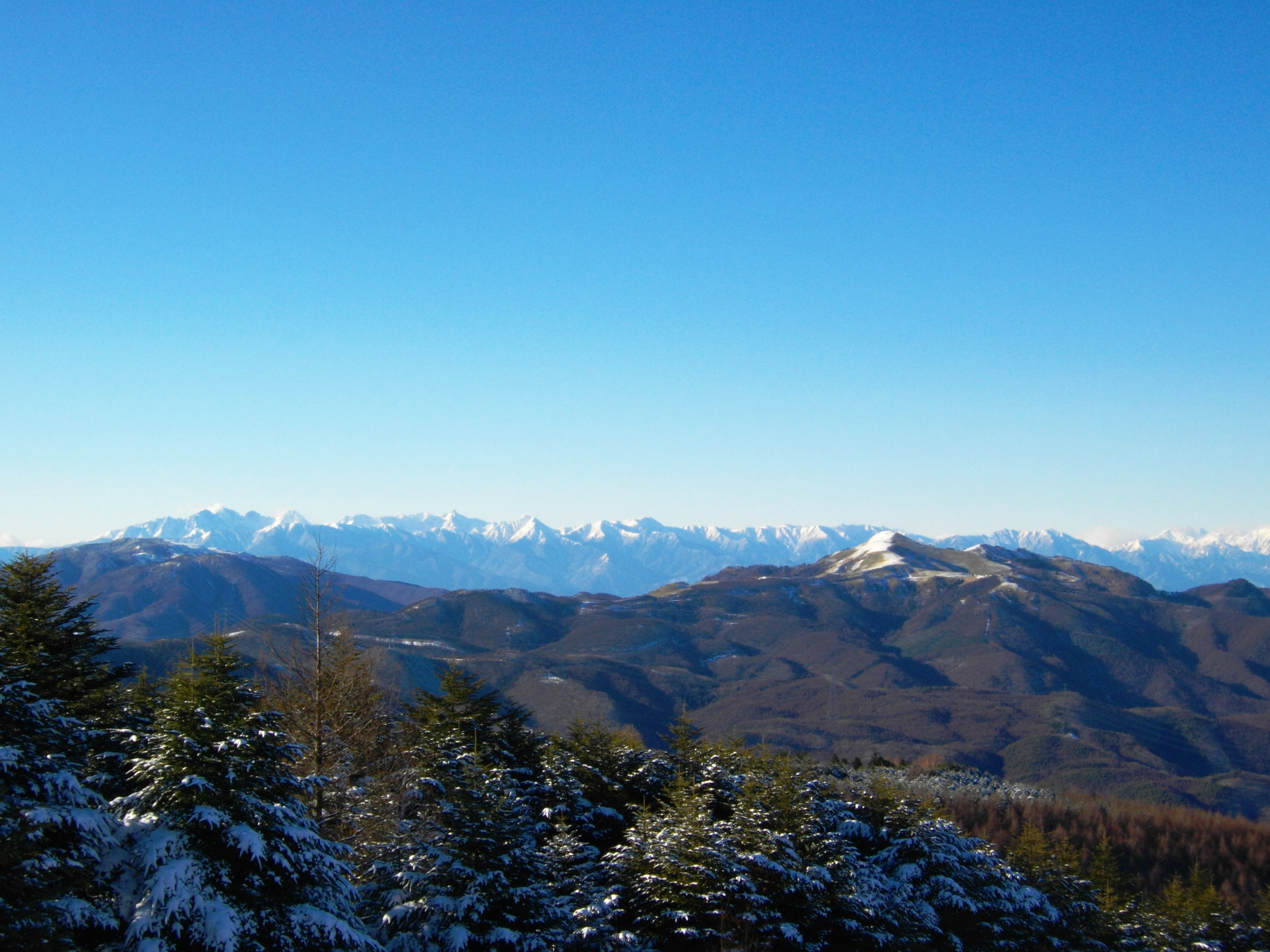 Hida Mountains from Mount Osasa, Honshu, Japan.